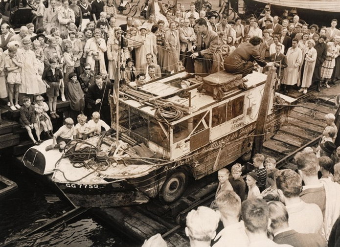 A photograph of Ben Carlin's craft Half-Safe in Copenhagen in 1951.